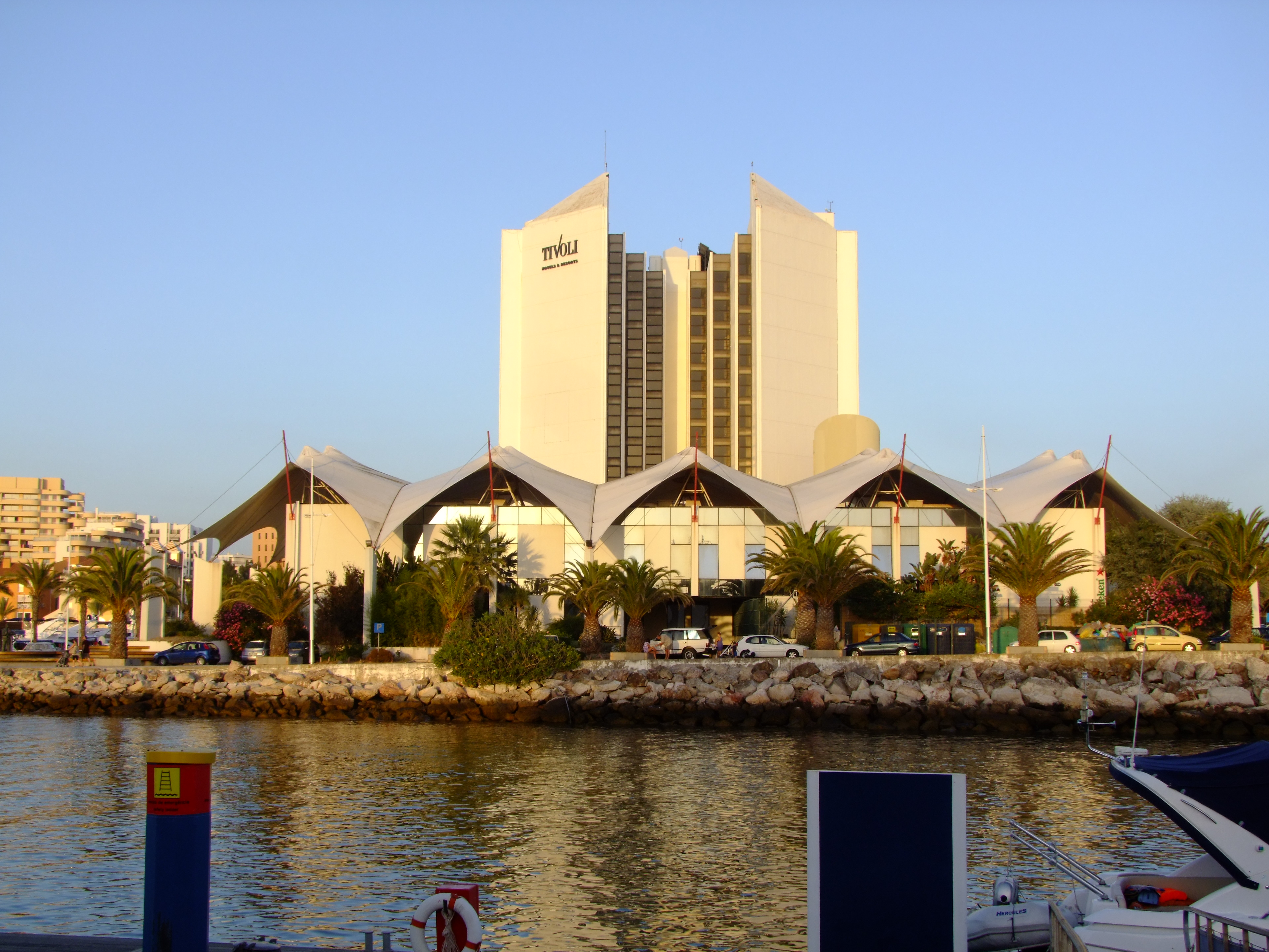 The Hotel Tivoli Marina is located on Vilamoura marina which is in the municipality of Loulé, Algarve, Portugal.